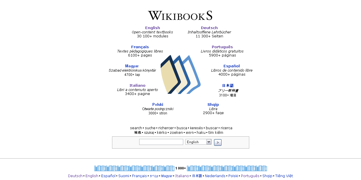 Screenshot of the multilingual Wikbooks portal ( - only the top visible portion this time.